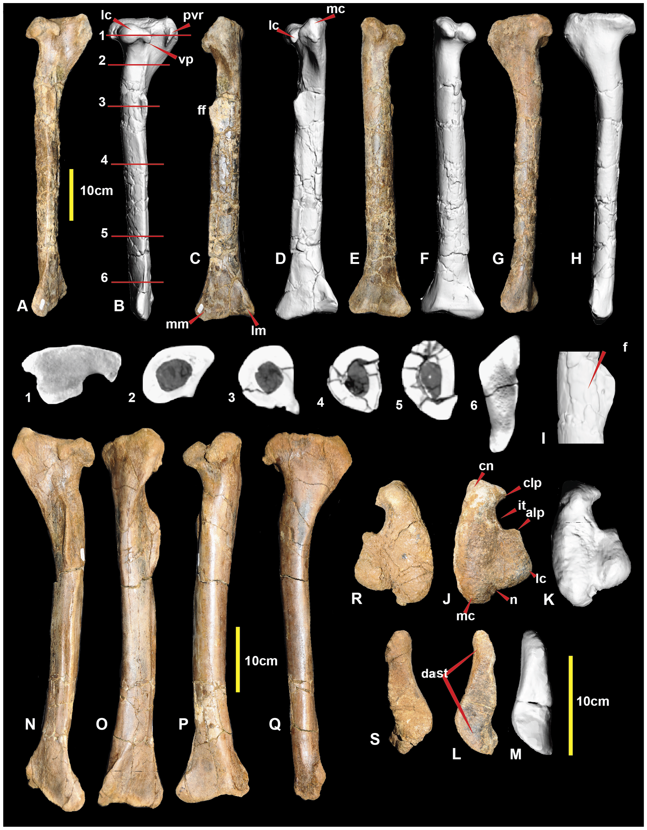 Figure 3. Right and left tibia. Right tibia in: lateral (A & B); cranial (C & D); caudal (E & F); and medial (G & H) views; close up of fibular flange with fossa (I), right tibia in: proximal (J & K); and distal (L & M) views. Left tibia in: lateral (N); cranial (O); caudal (P); medial (Q); proximal (R); and distal (S) views. Abbreviations: alp, anterolateral process; clp, cranio-lateral process; cn, cnemial crest; dast, distal astragular facet; f, fossa; ff, fibular flange; it, incisura tibialis; lc, lateral condyle; lm, lateral malleolus; mc, medial condyle; mm, medial malleolus; n, notch; pvr, postero-ventral ridge; vp, ventral spine-like process.